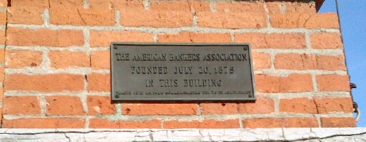 Plaque marking the site where the American Bankers Association was founded in 1875, Saratoga Springs, New York